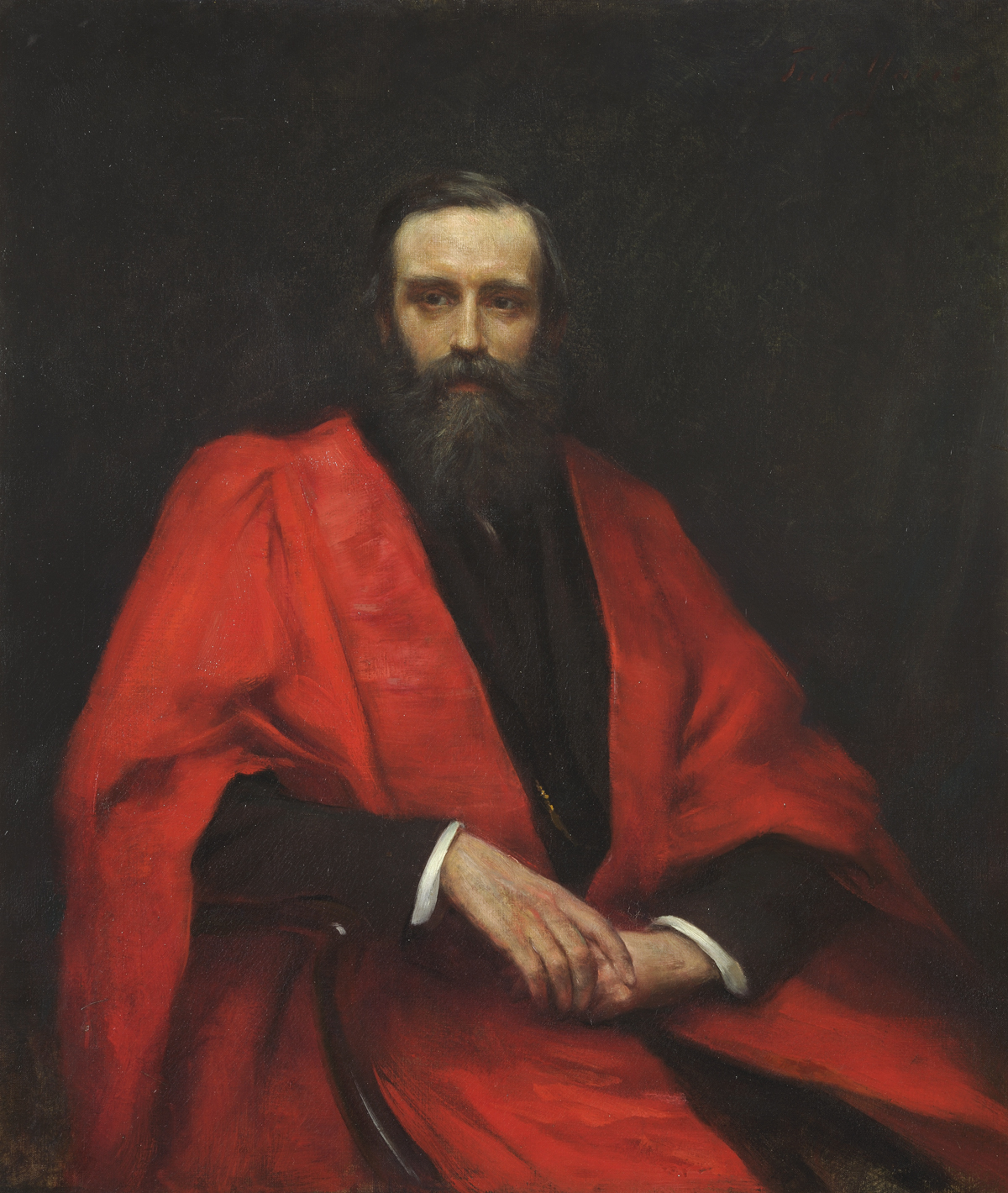 Prof Arthur Woollgar Verrall (1851-1912)